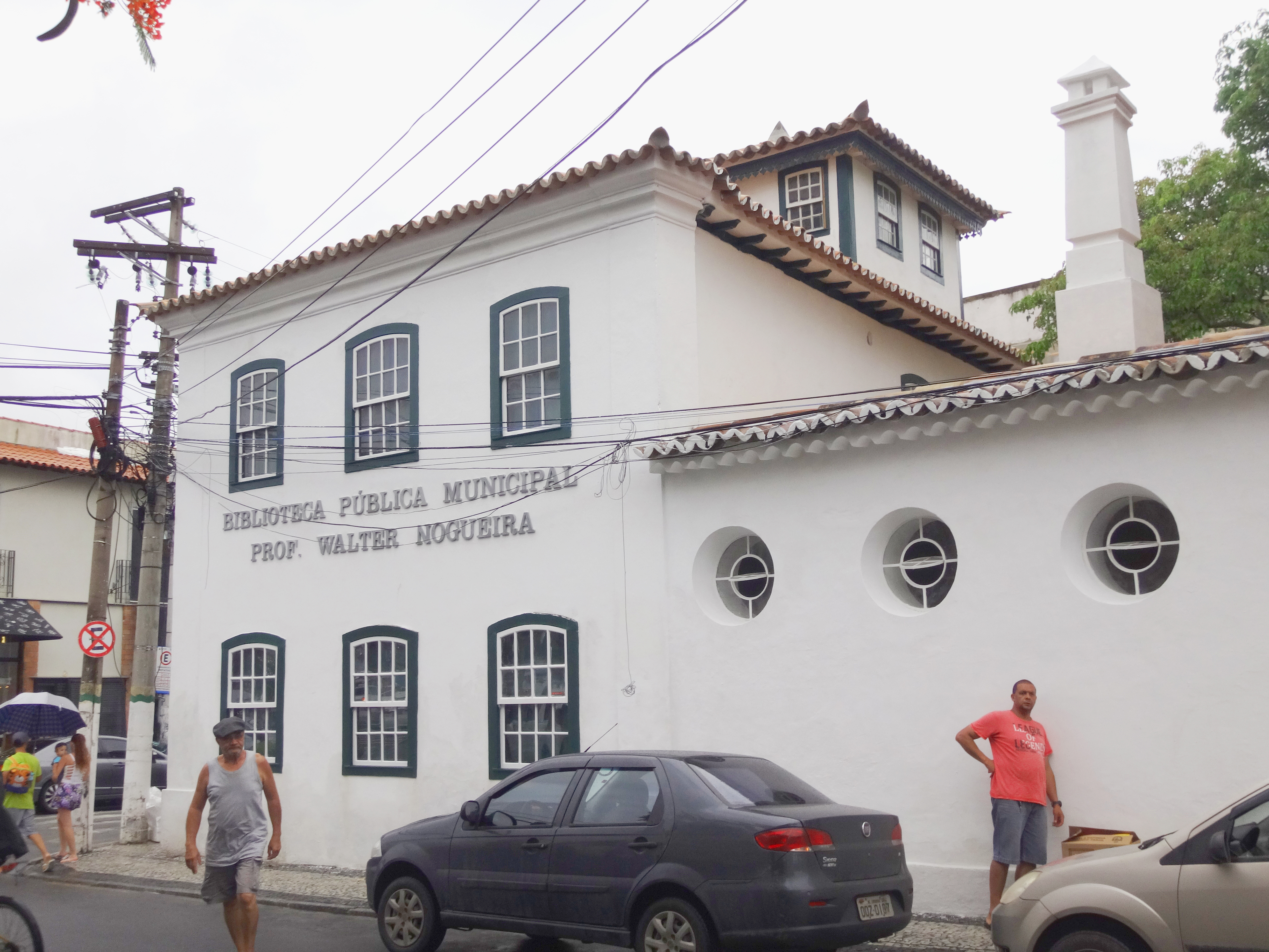 Walter Nogueira Library in the historic centre of Cabo Frio, Brazil